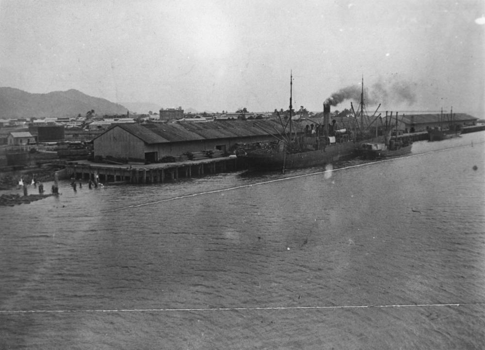 Ships berthed at Cairns Wharf, ca. 1935.